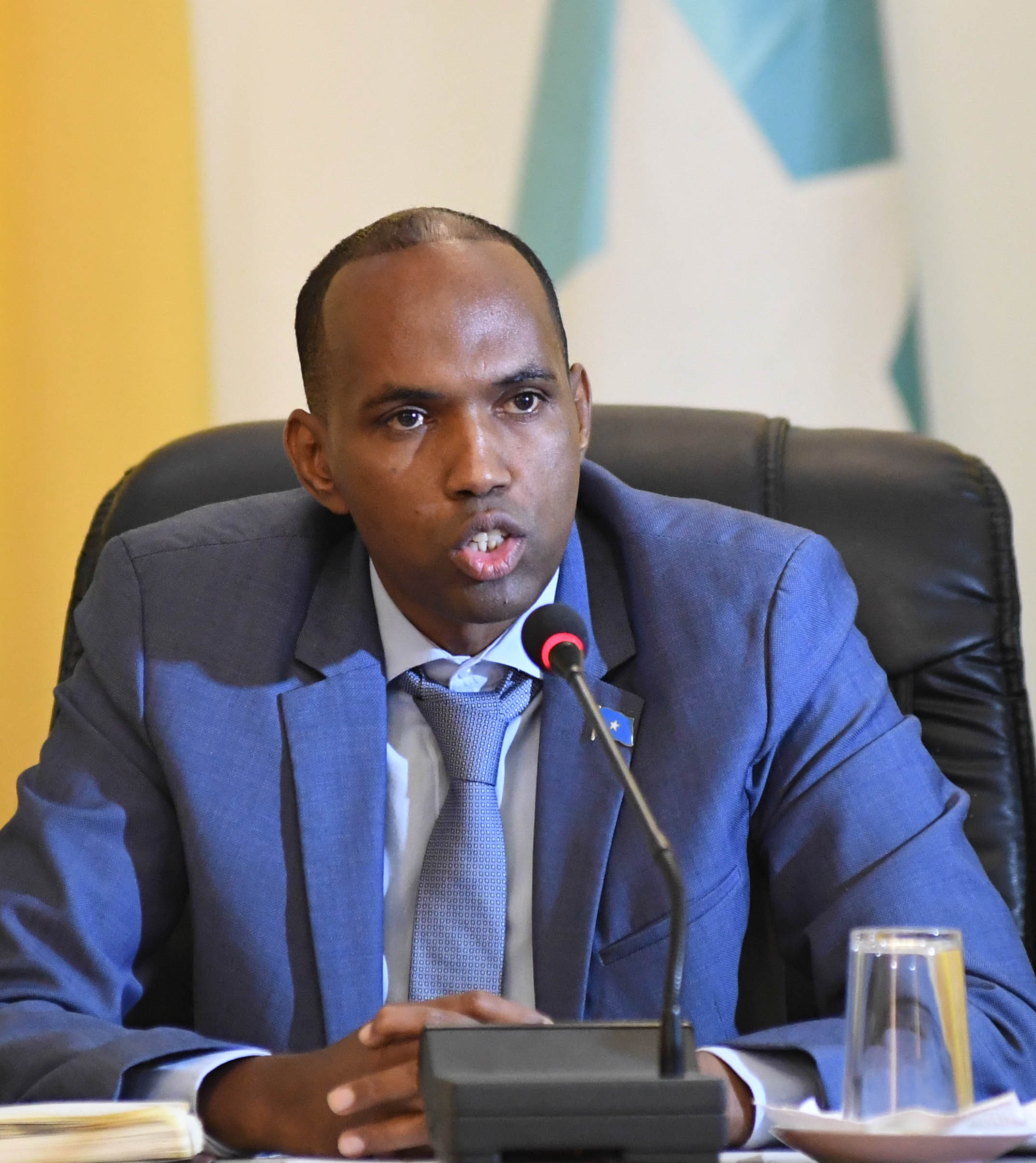 Somalia's Prime Minister, Hassan Ali Kheyre, speaks during a meeting with AU delegation led by the Chairperson of the African Union Peace and Security Council, Ambassador Ndumiso Ntshinga. The delegation is on a day working visit in Mogadishu, Somalia, on March 23, 2017.